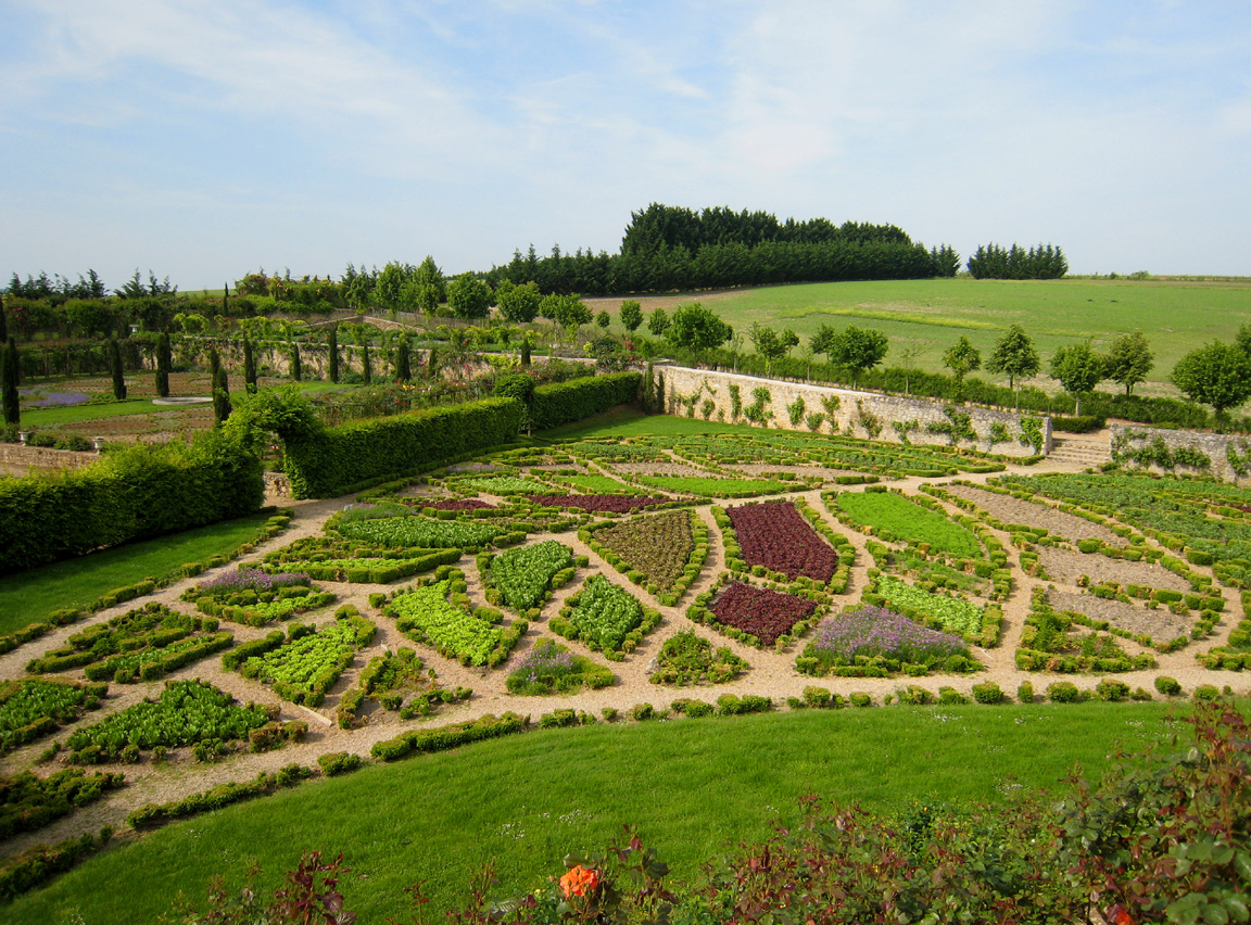 Castle of Chatonnière near the village of Azay-le-Rideau in France, garden of abundance